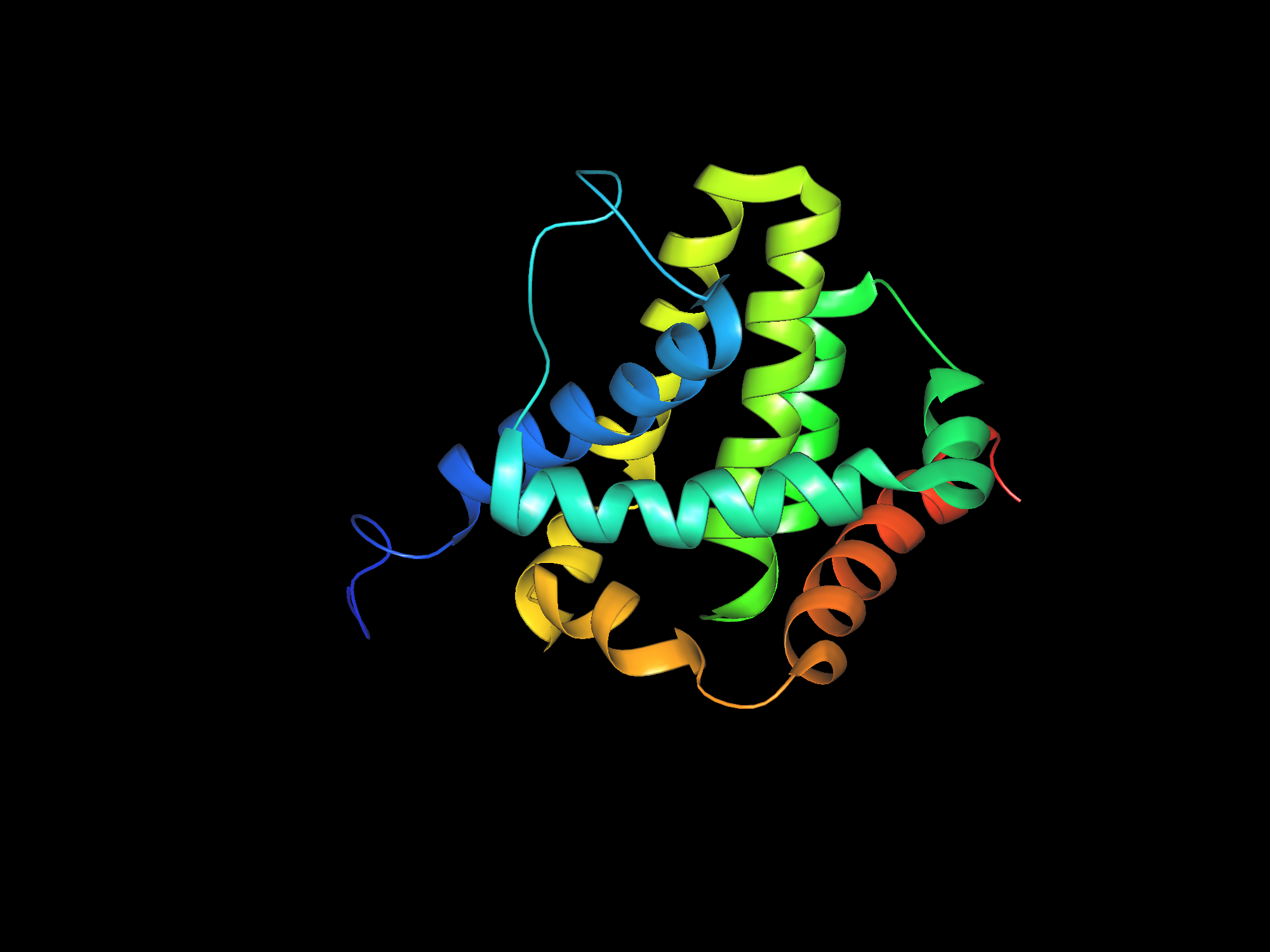 Structure of Bax protein